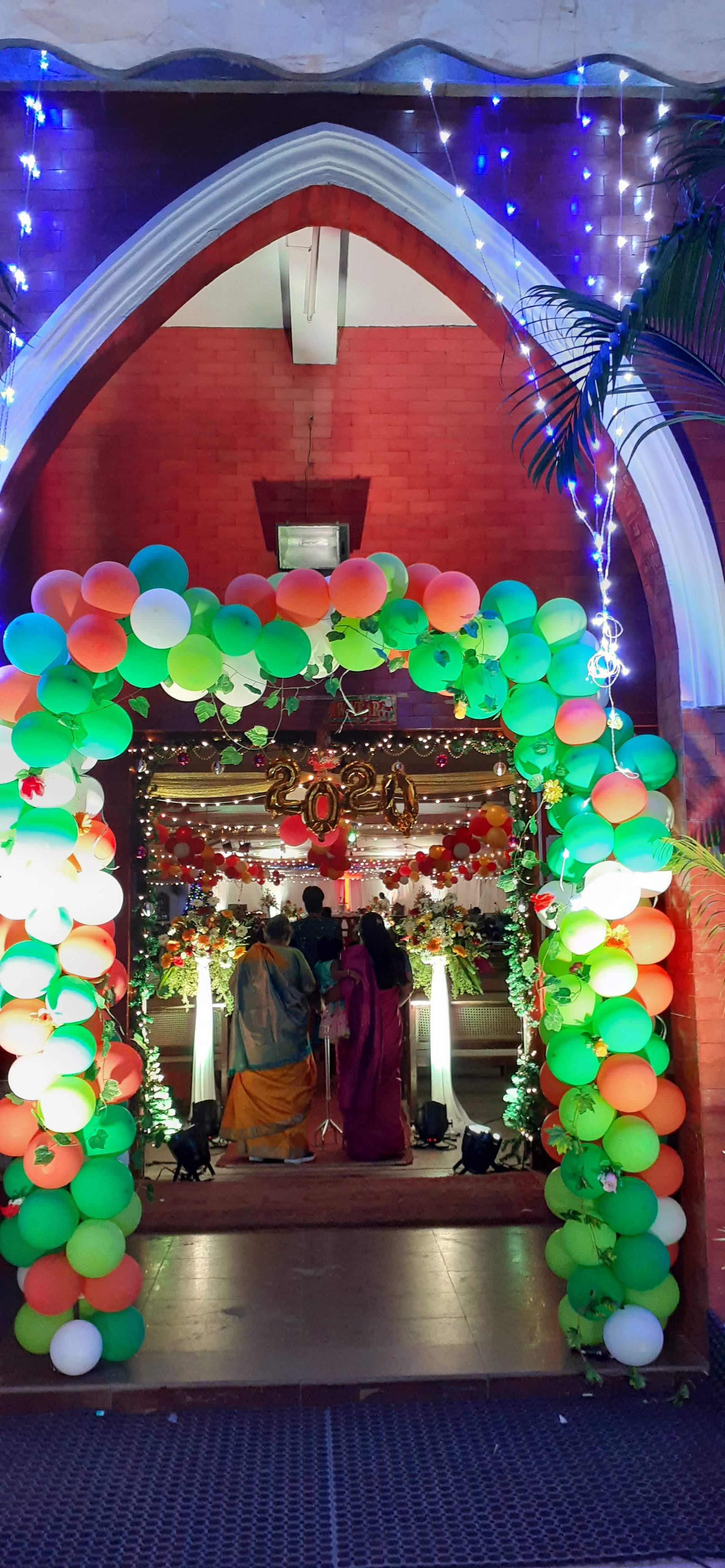 CSI WESLEY CHURCH, Perambur, Chennai, Tamil Nadu, India.